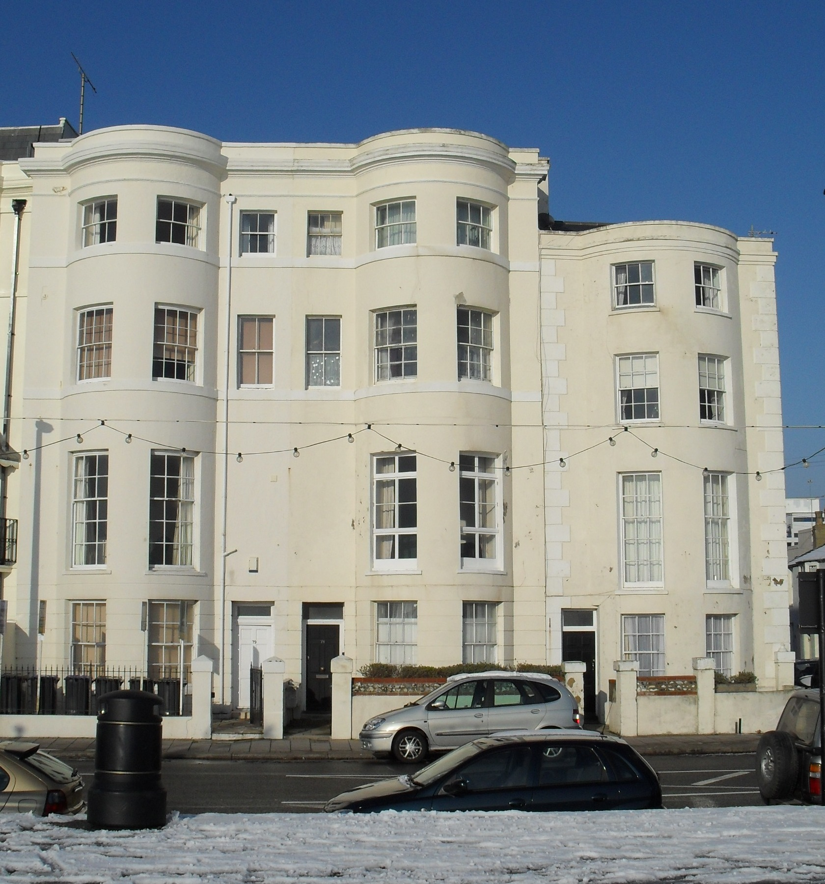 Early 19th-century terraced houses at 77, 78 and 79 Marine Parade, Worthing, West Sussex, England, seen from the south. These three houses used to have first-floor wooden balconies.